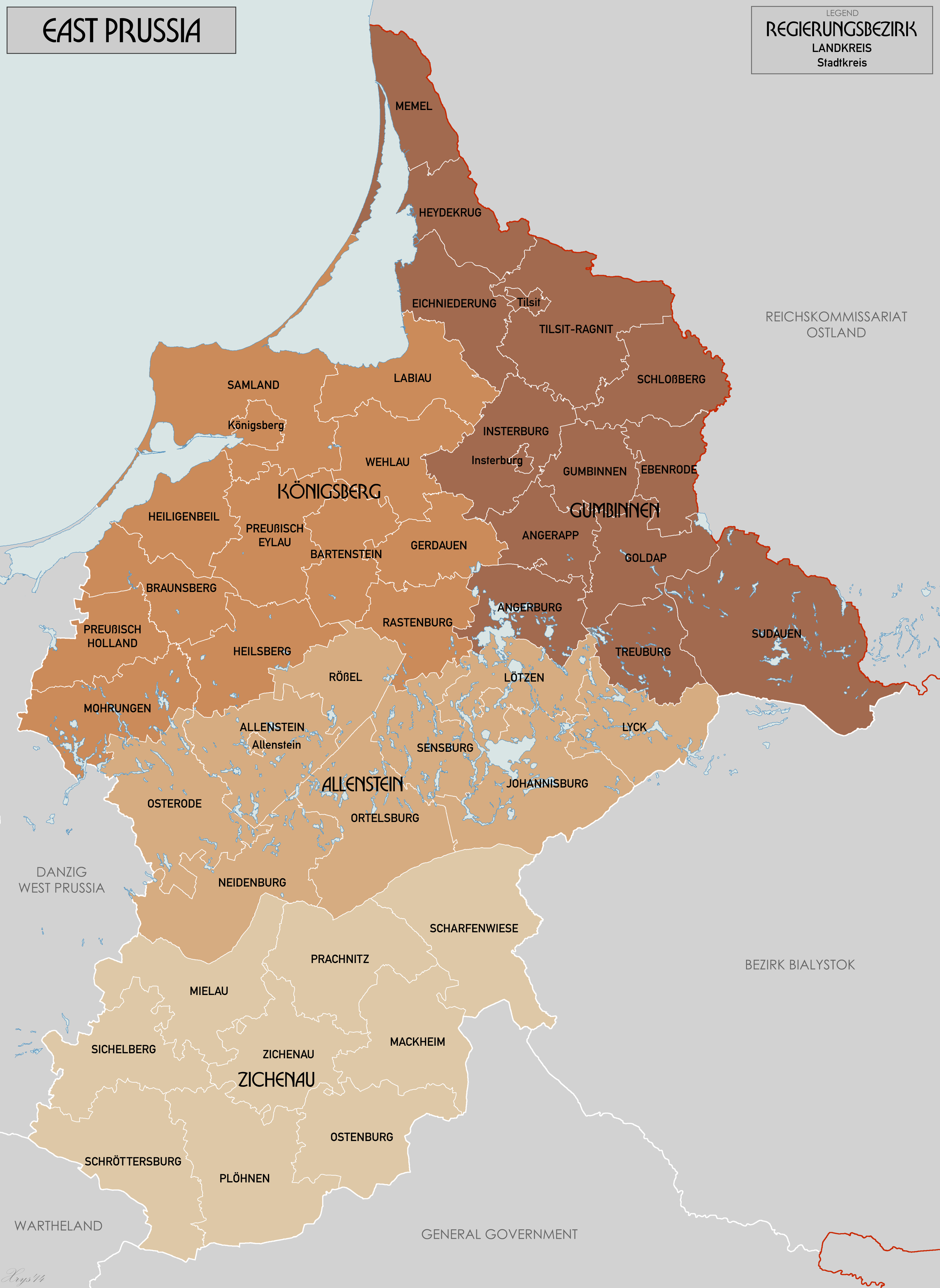 Administrative map of East Prussia in 1944. Map data digitised from Karte des Deutschen Reiches 1:100k, Karte von Mitteleuropa 1:300k. Some source maps from WIG (